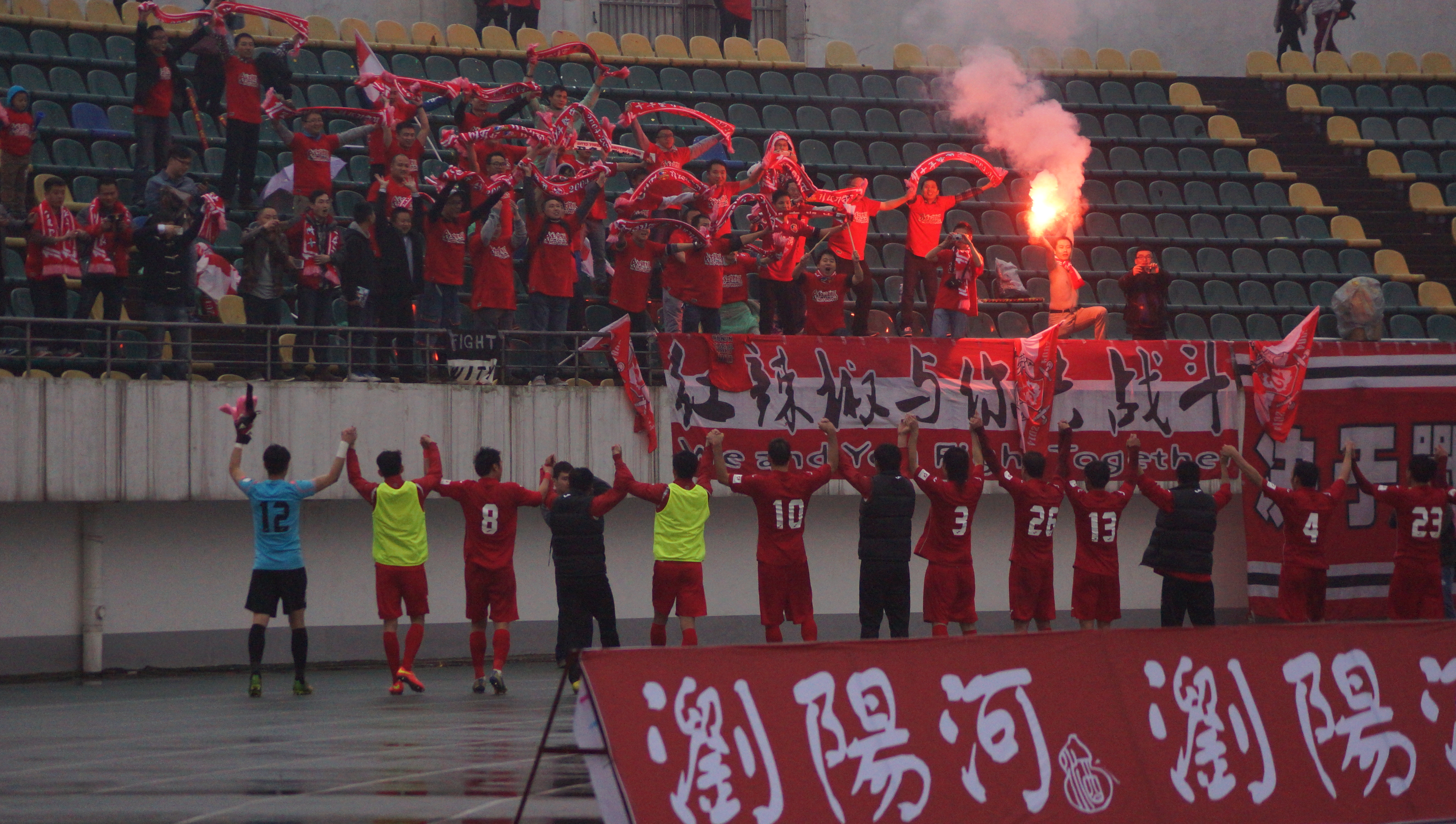 Hunan Billows Fans Red Pepper